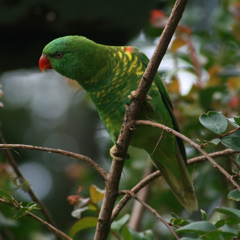 Scaly-breasted Lorikeet on a branch in Australia.